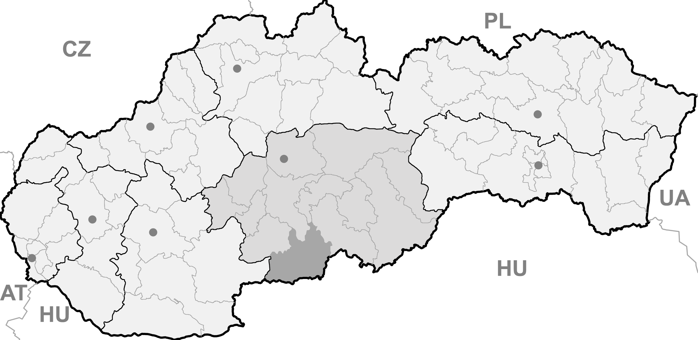 Map of Slovakia, Velky Krtis district and Banská Bystrica region highlighted